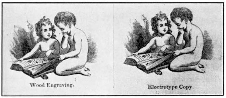 April, 1841 illustration by Joseph Alexander Adams from the US magazine American Repertory. The illustration compares printing using a wood carving and using a copper electrotype made from the same carving. It is among the earliest images printed using electrotyping; for more than 125 years afterward, electrotyping and stereotyping were widely used printing technologies.